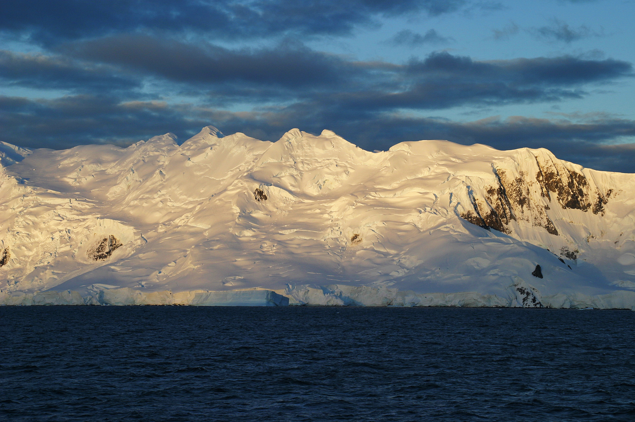 Ice desert of Antarctica in the evening red. Bransfield Strait: South Polar Sea between the South See Islands and the Antarctic mainland.